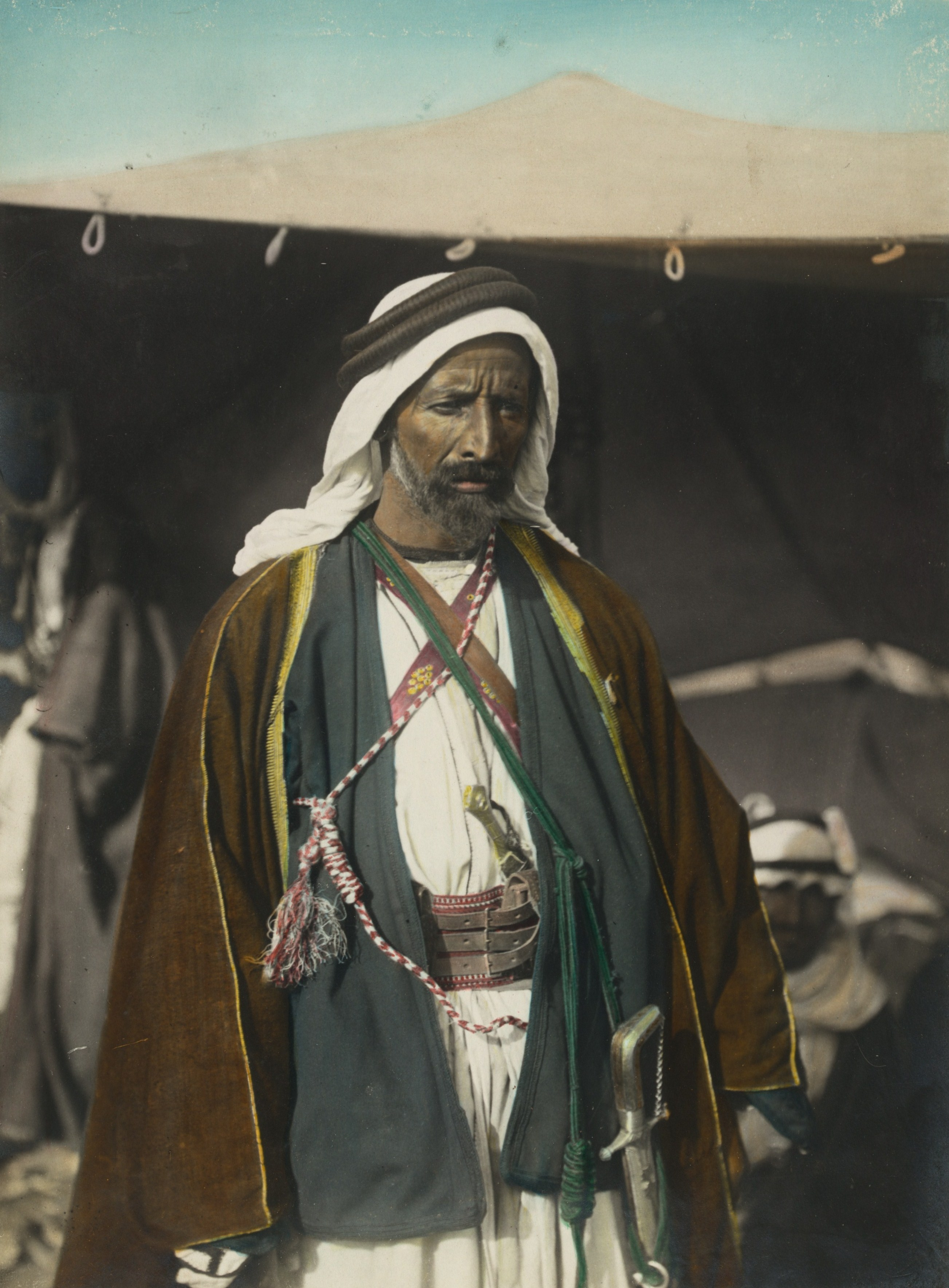 Hand-colored photograph of Howeitat chieftain Auda abu Tayi (died 1924).